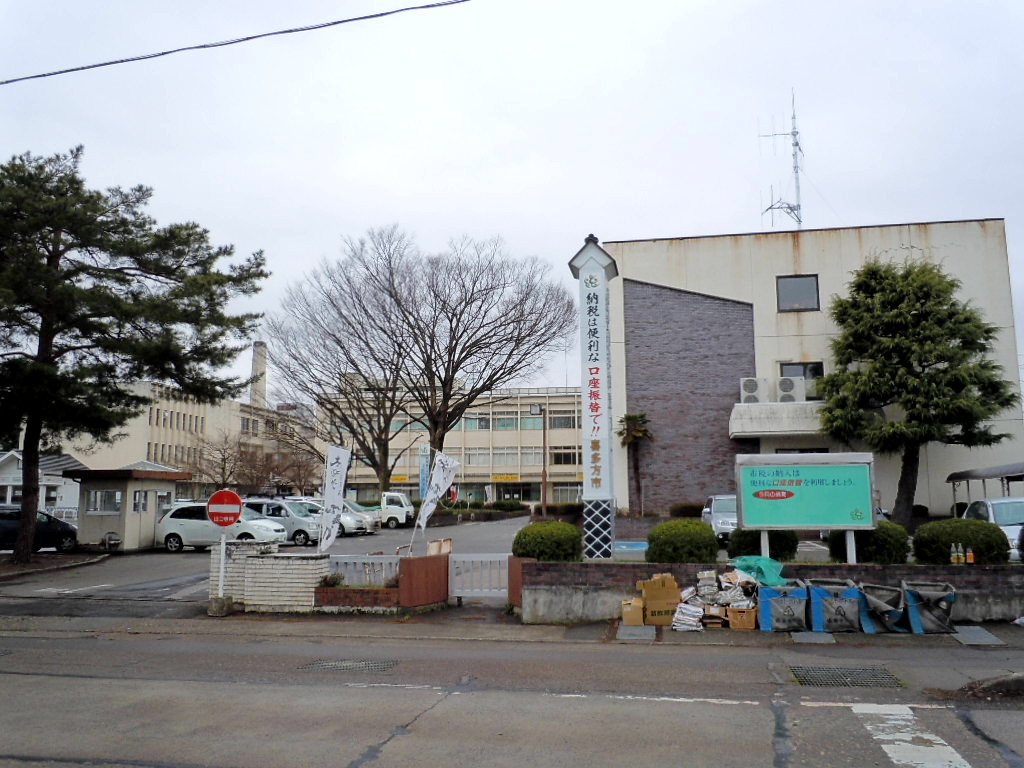 Kitakata city office